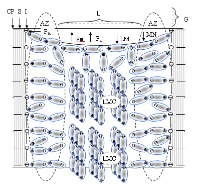 Molecular power 21. Liquid flow in a capillary